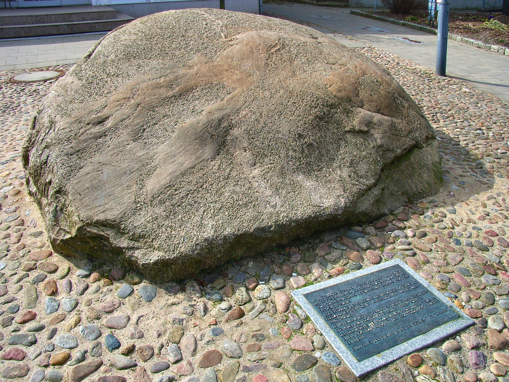 Glacial erratic in Bergen on island Rügen